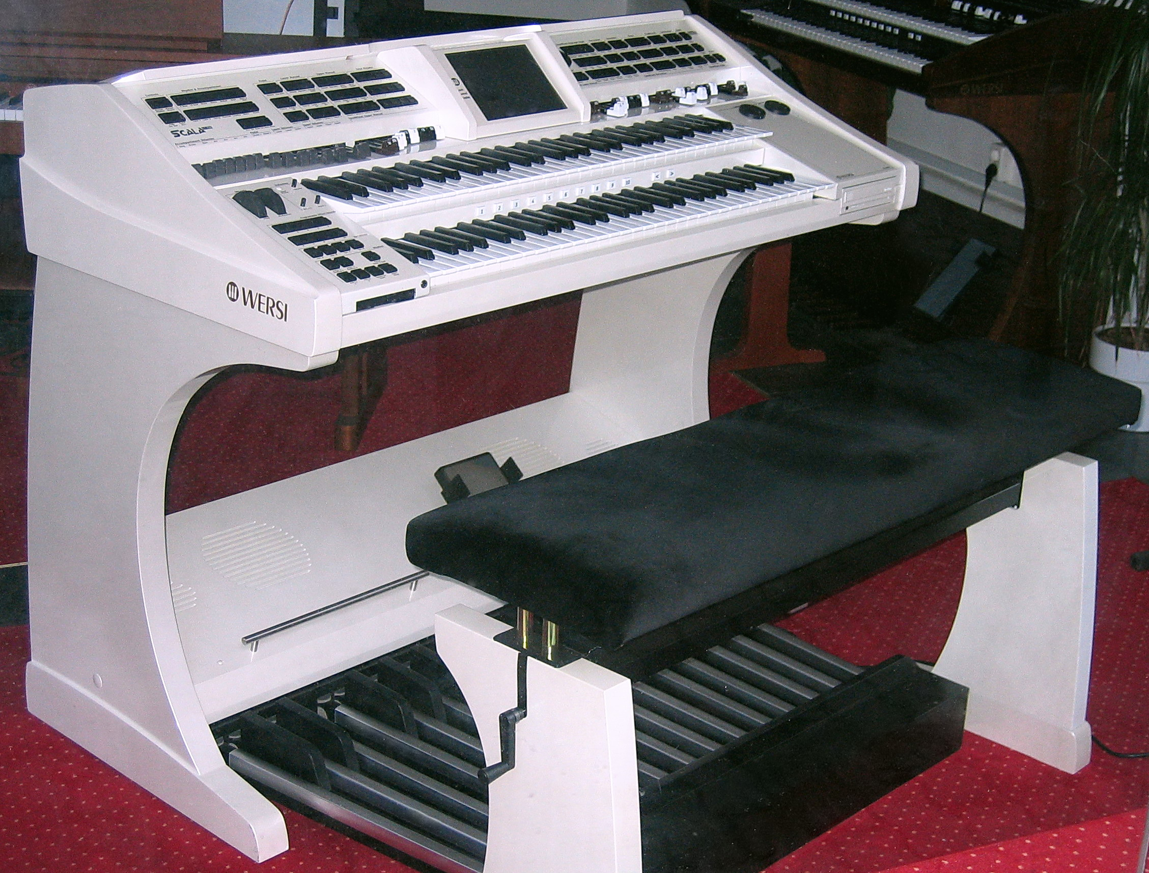 An electronic home organ of WERSI